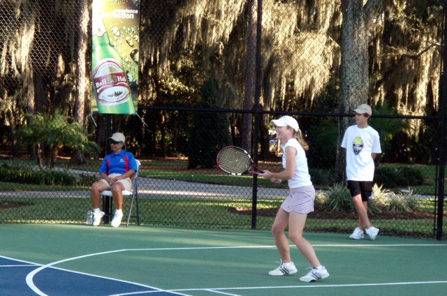 Photograph of Jackie Trail playing tennis